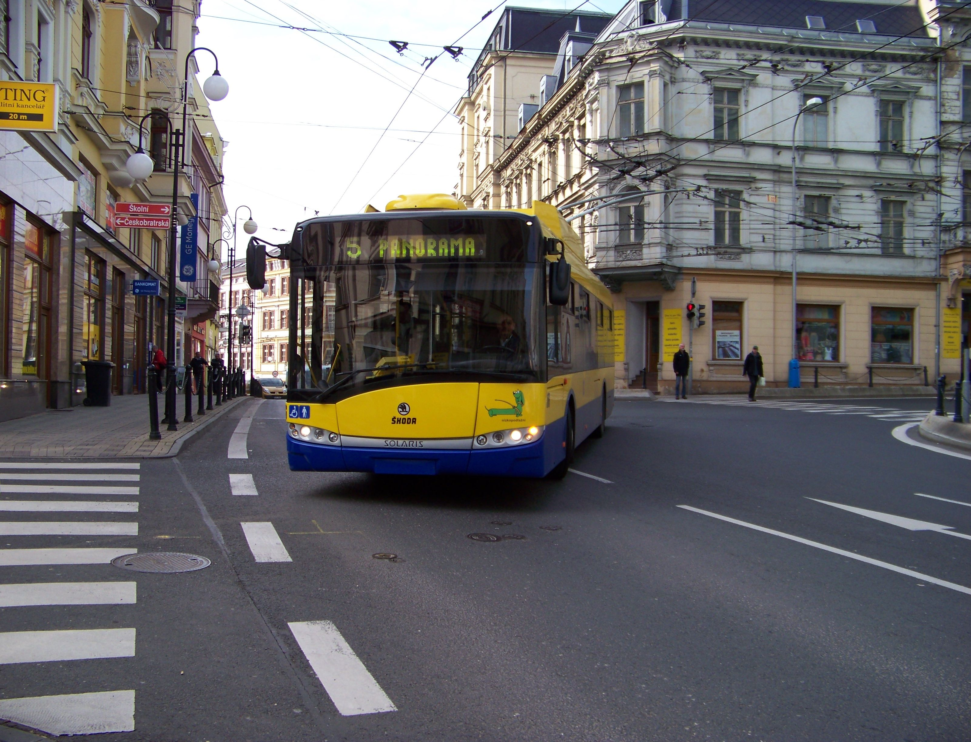 Teplice, Teplice District, Ústí nad Labem Region, the Czech Republic. Intersection of Masarykova třída and Školní street. Škoda 26Tr Solaris trolleybus. - OpenStreetMap(Info)